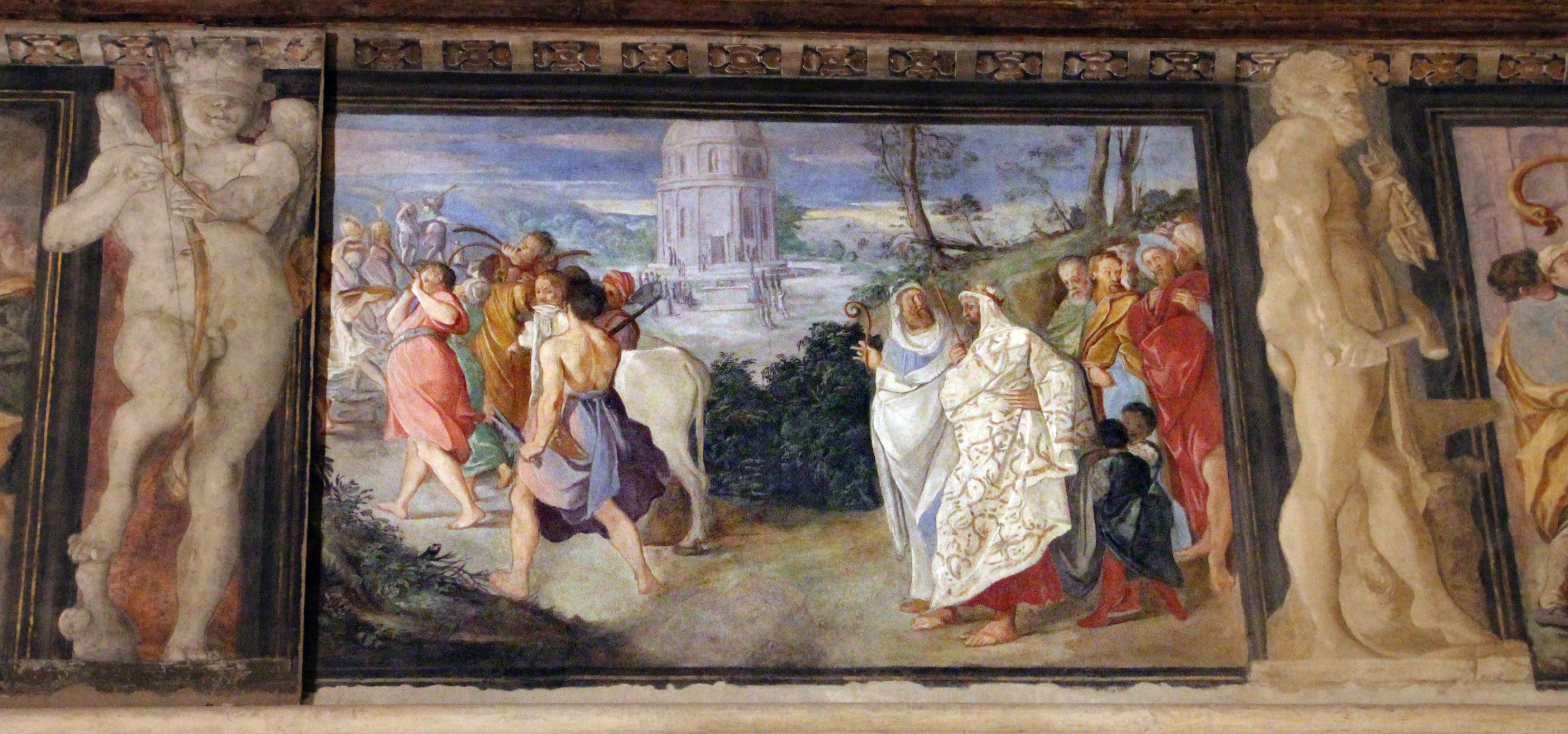 Frieze of Jason and Medea